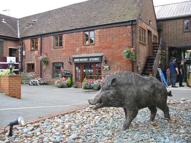 The Hampshire Hog Ringwood Brewery Ringwood Hampshire. The hog is the logo for the brewery and greets everyone visiting the brewery shop in the background.